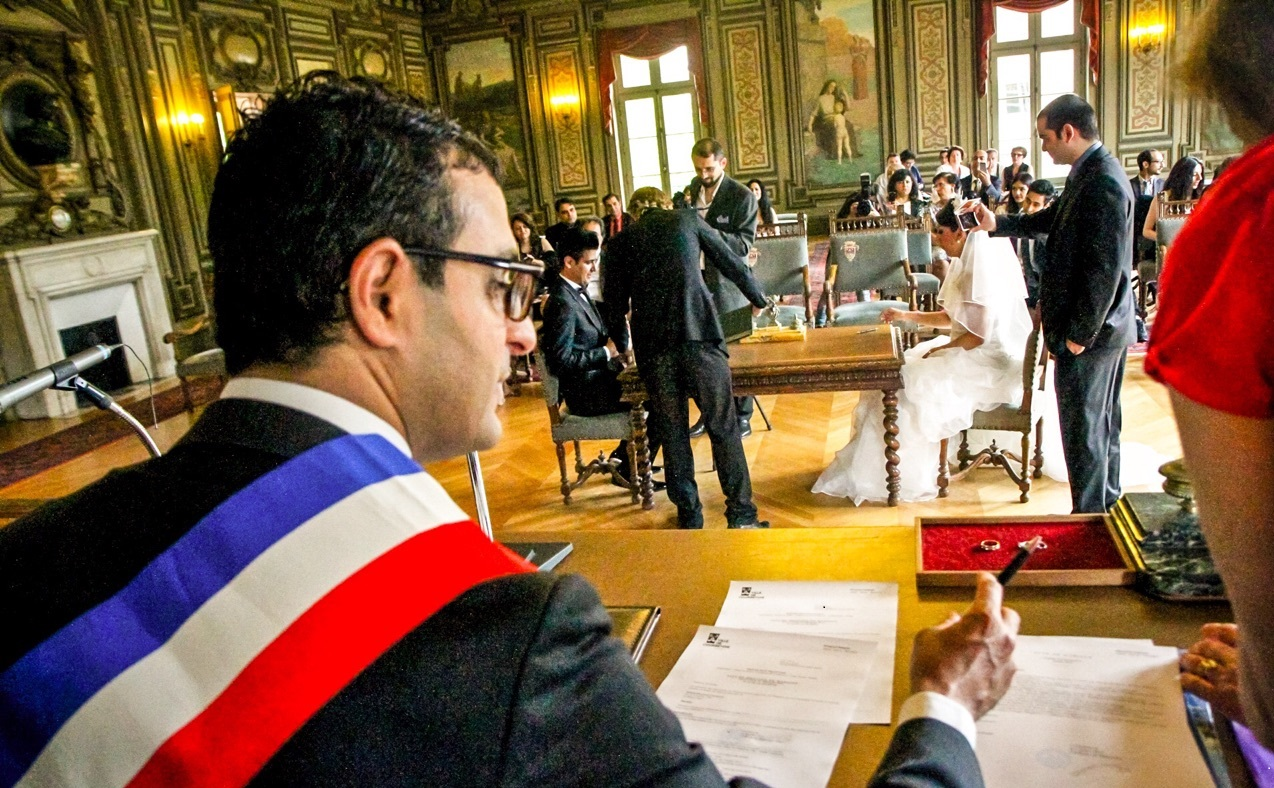 Arash Derambarsh celebrating a wedding in Courbevoie as a member of the city's elected council